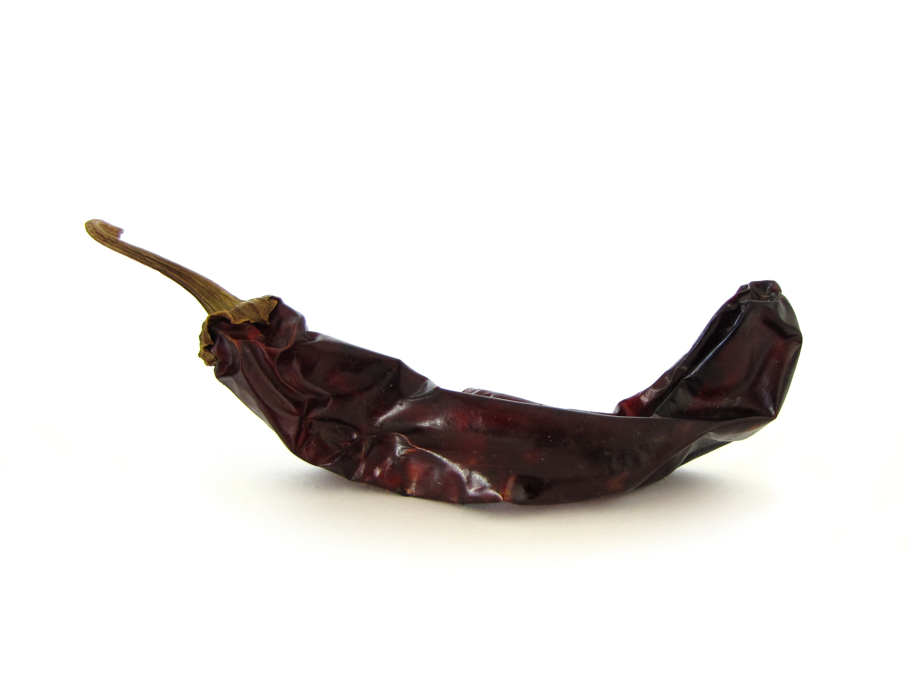 Dried Capsicum annuum chili pod of the Guajillo chili cultivar